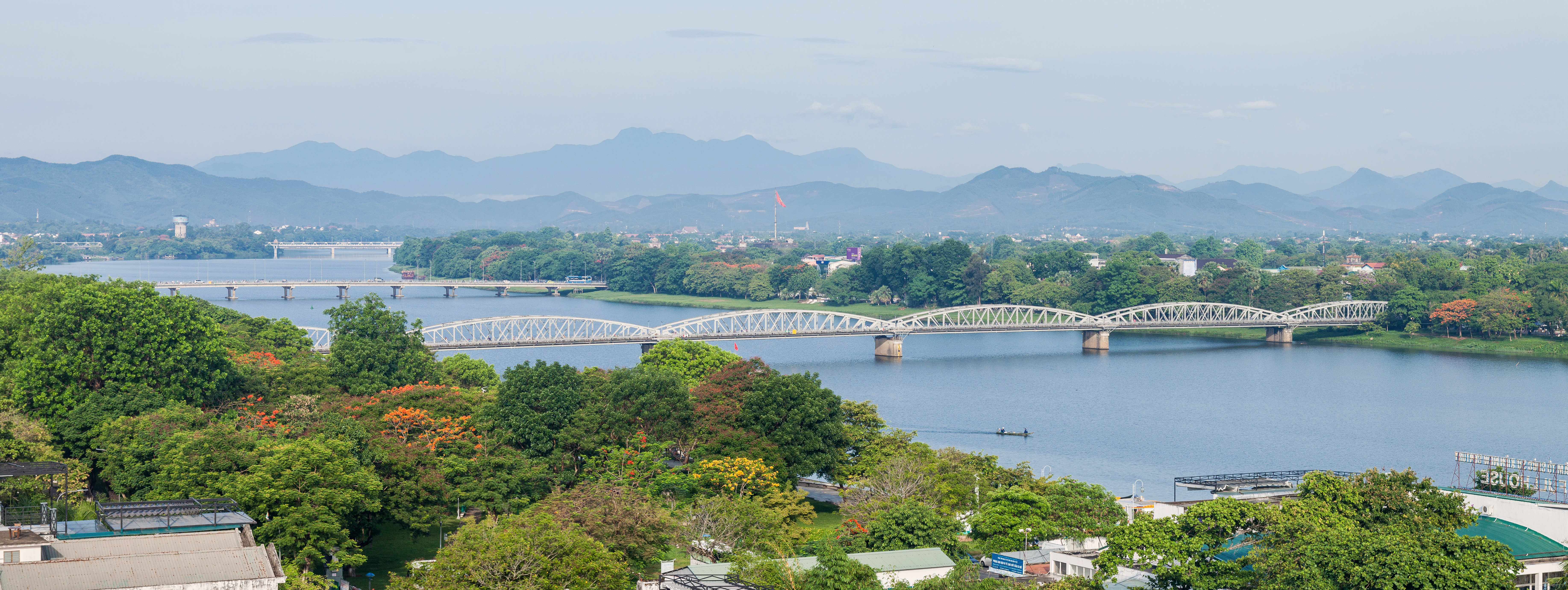 The panoramic view of Truong Tien bridge crossing Perfume River in Hué, Vietnam.